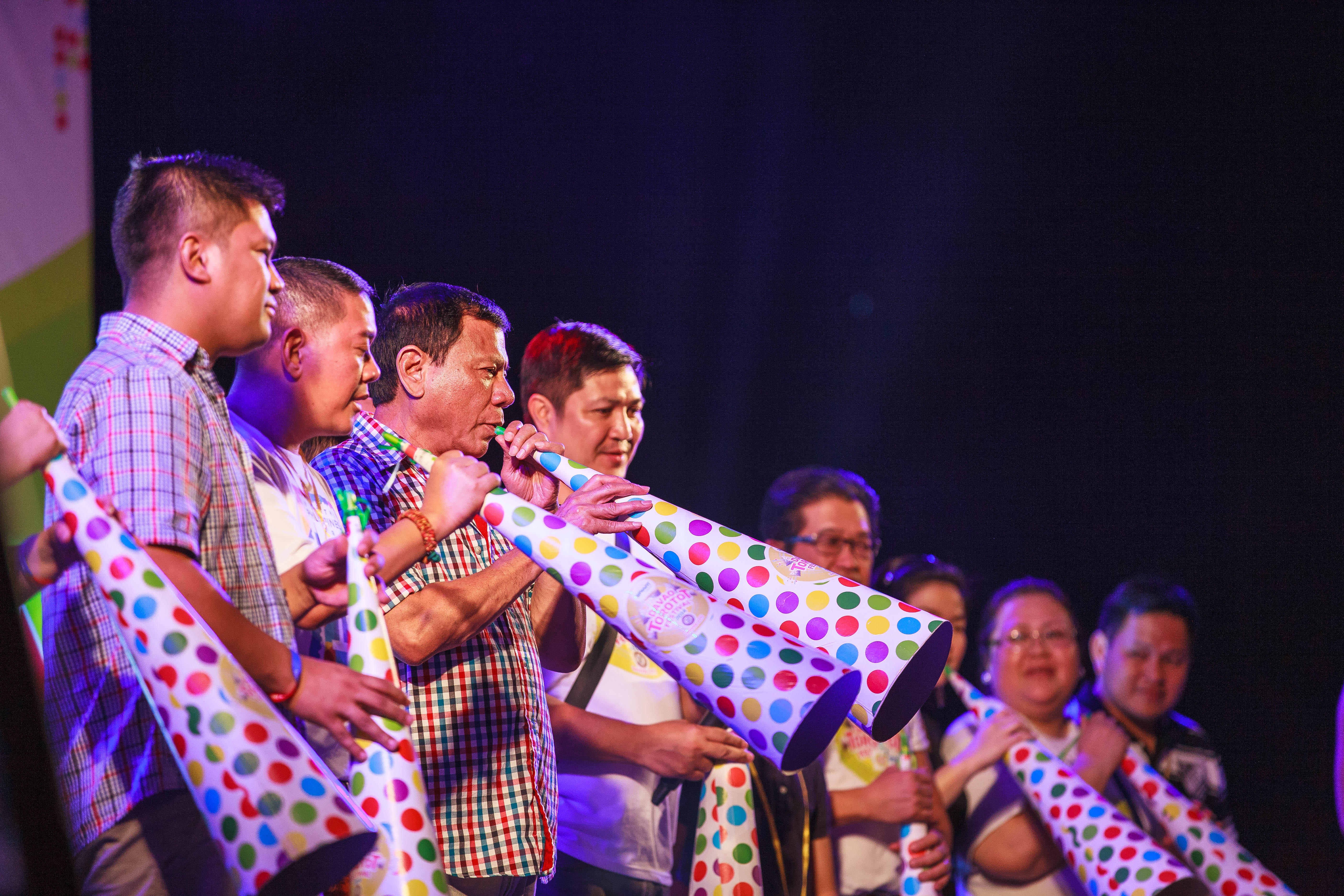 Mayor Rodrigo Duterte leading the blowing of horns during the Torotot Festival 2015 in Davao City